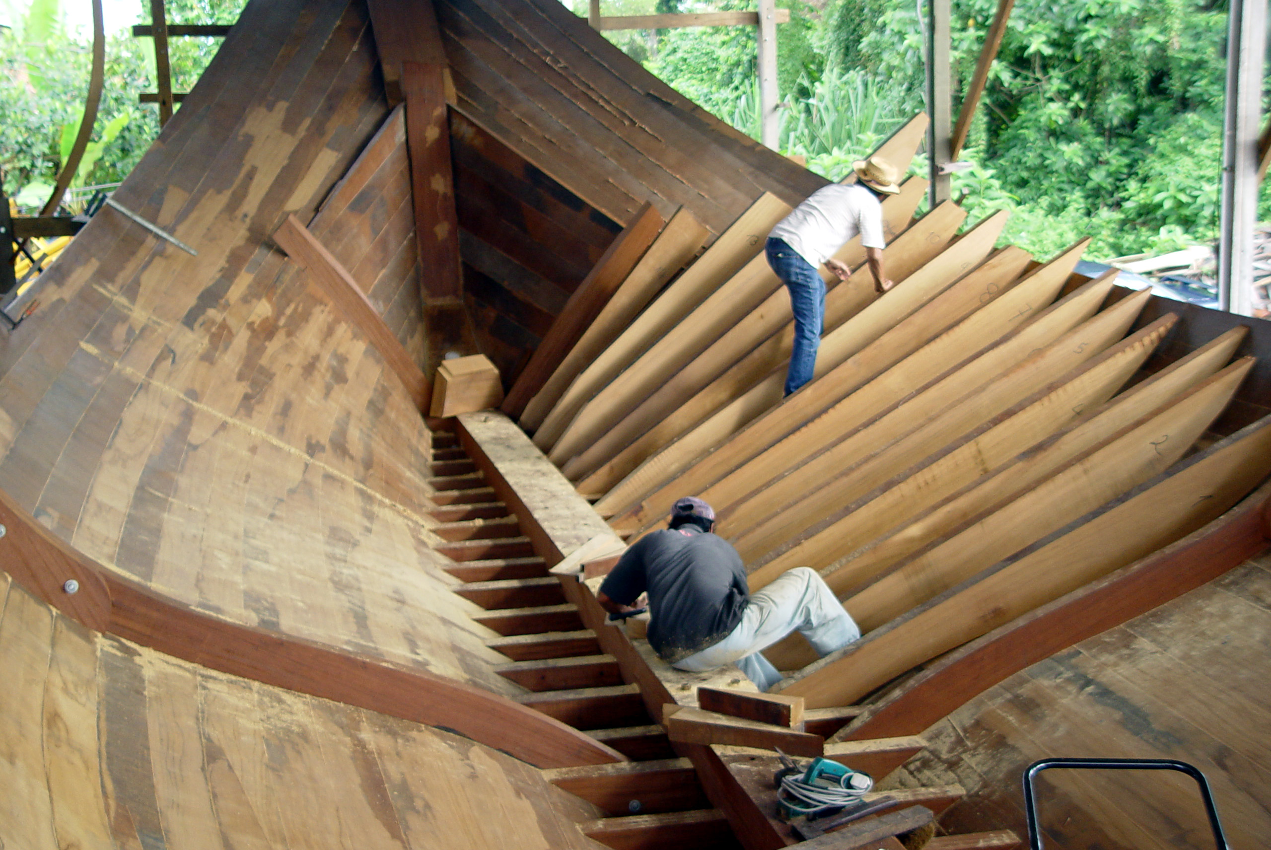 Naga Pelangi building - the frames are fitted